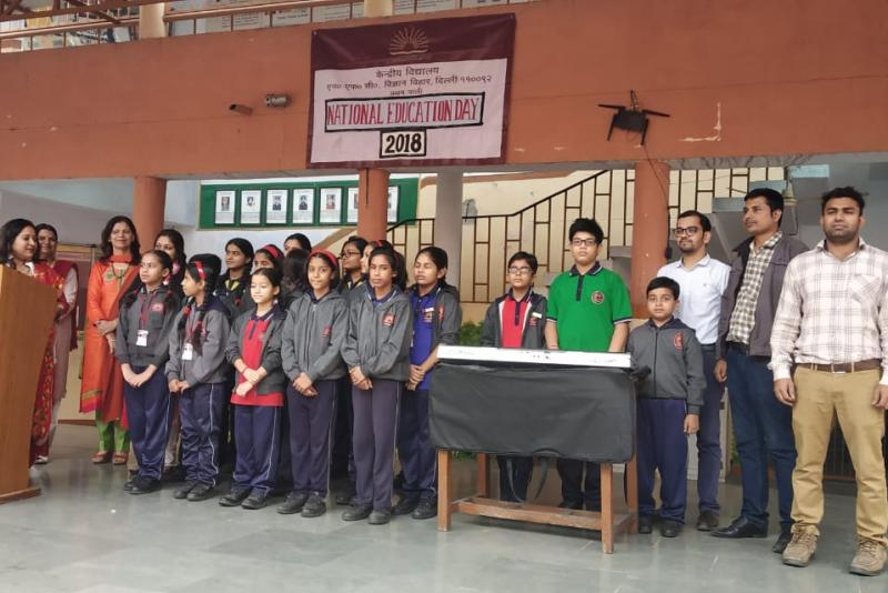 Kendriya Vidyalaya Vigyan Vihar, is a school in Delhi, India and one of the schools under the group known as the Kendriya Vidyalayas, a system of central government schools under the Ministry of Human Resource Development (India).